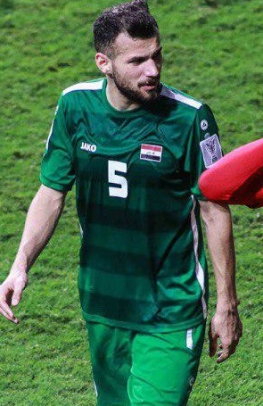 Ali Faez